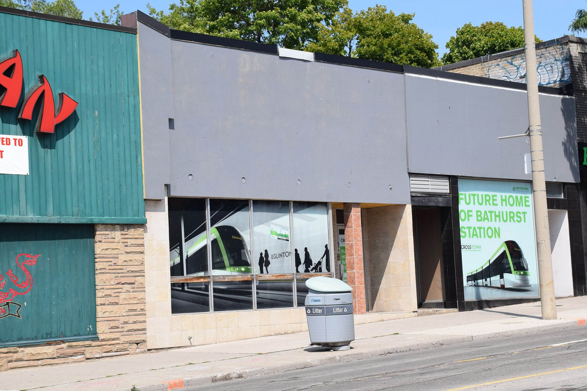 Bathurst LRT station storefront and part of the House of Chan